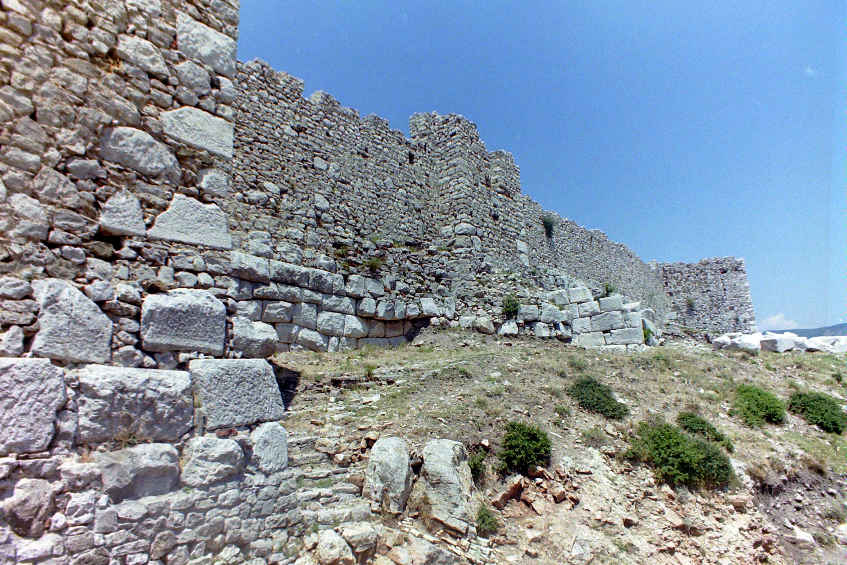 Lezha Castle in 1995, August